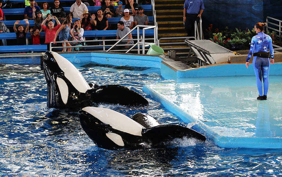 Kyuquot and Tuar perform in One Ocean at Shamu Stadium